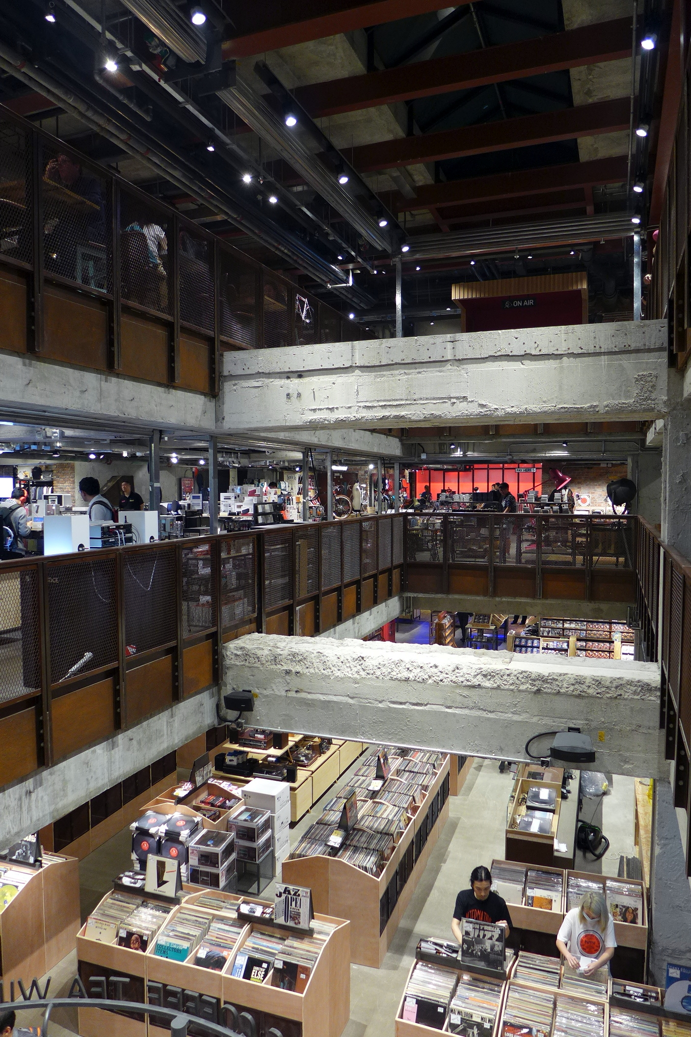 hmv causeway bay flagship store